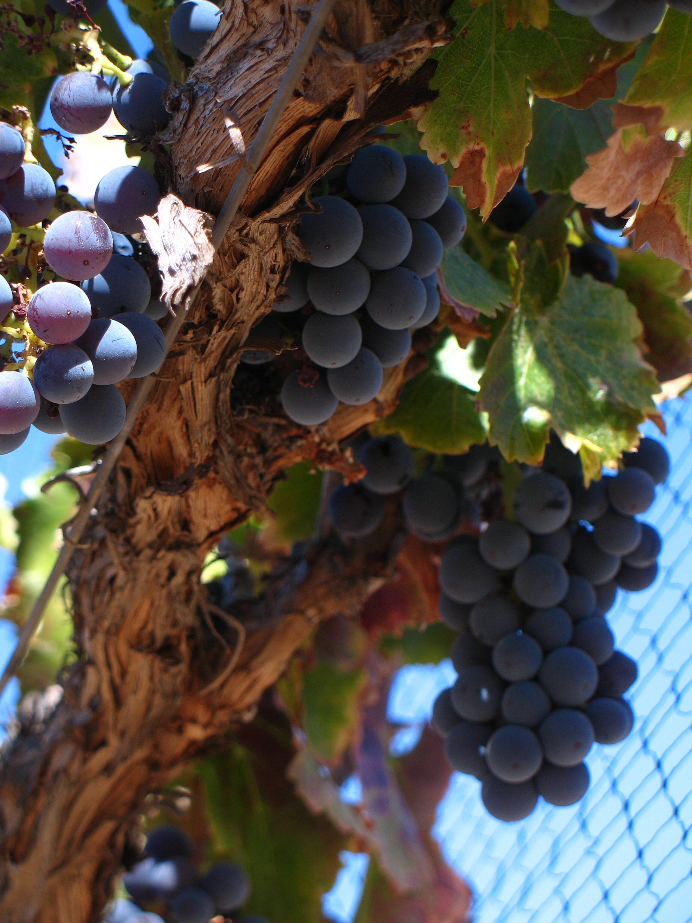 Grenache grapes from Santa Barbara County California